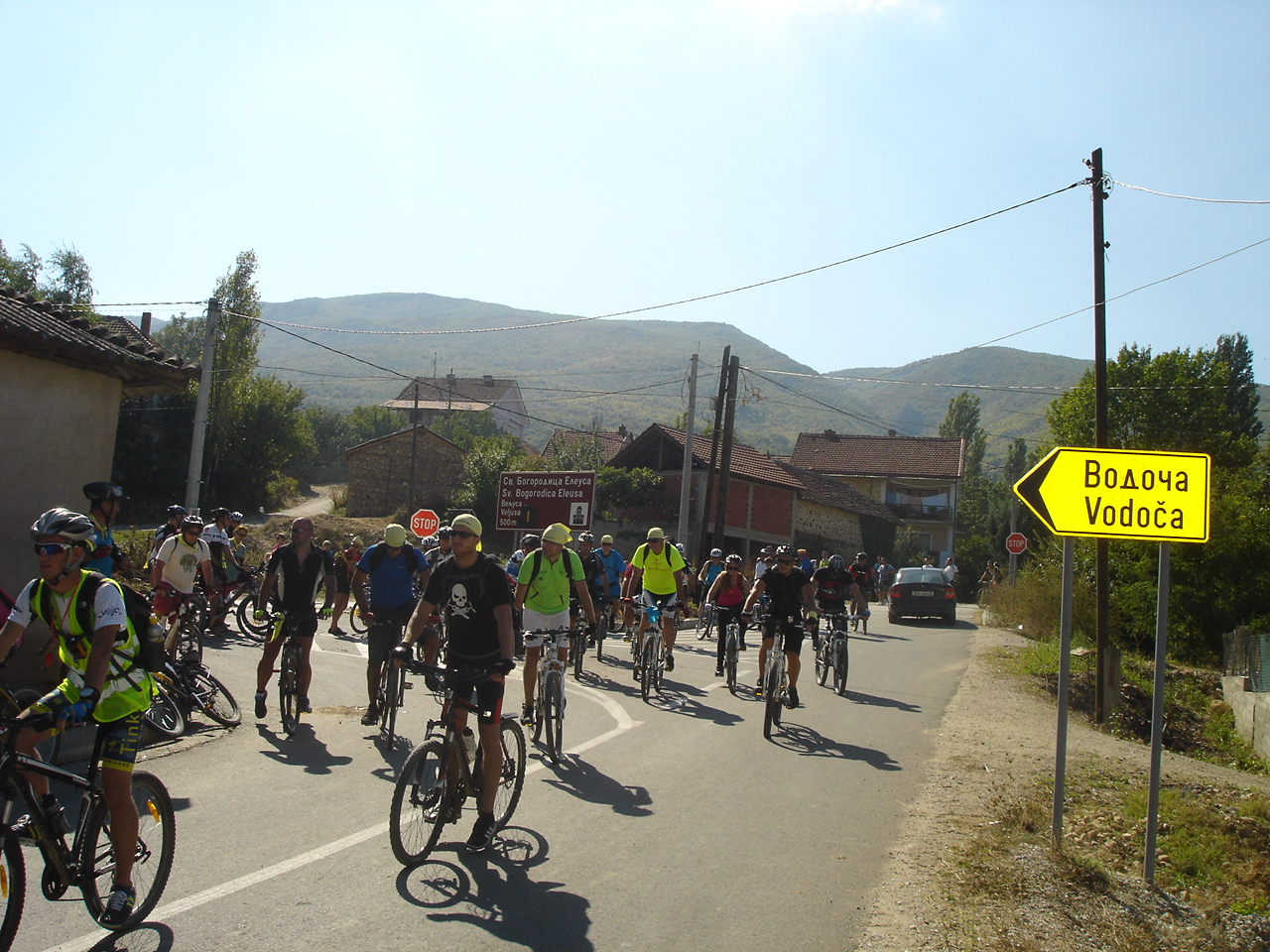 Cycling tour around Strumica, Macedonia